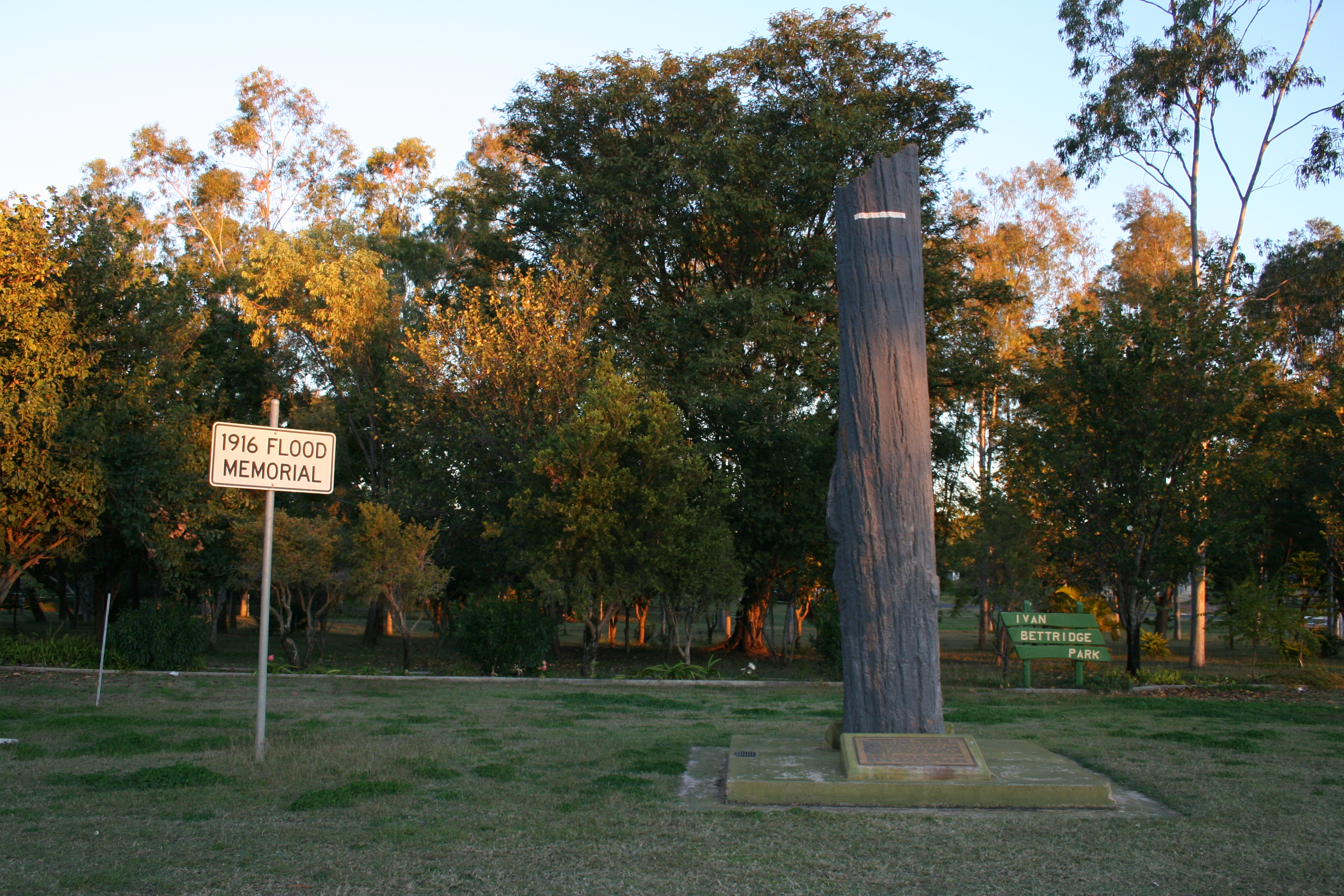 Flood Memorial in Clermont, outback Queensland, Australia